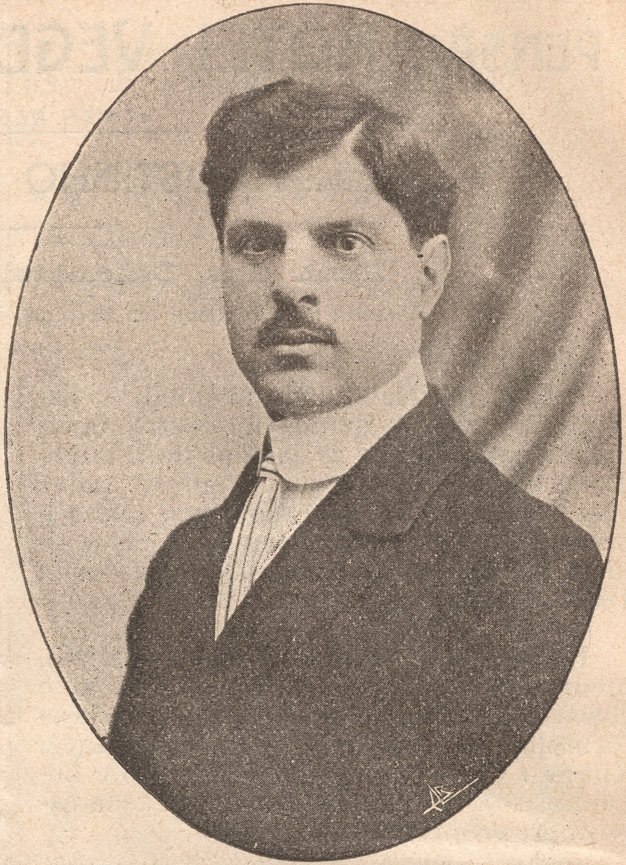 Portrait of Dr. Amílcar de Sousa